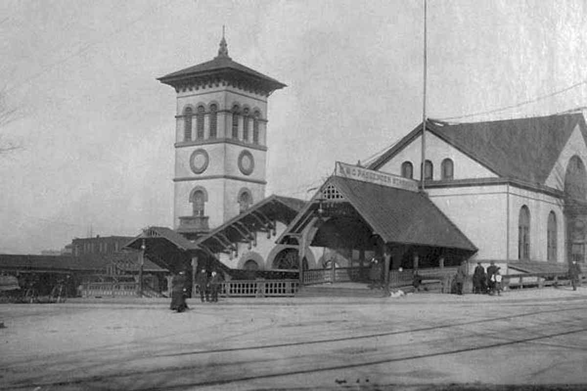 A view of the New Jersey Avenue Station, Washington, D.C. of the Baltimore and Ohio Railroad, in the late 1800s.